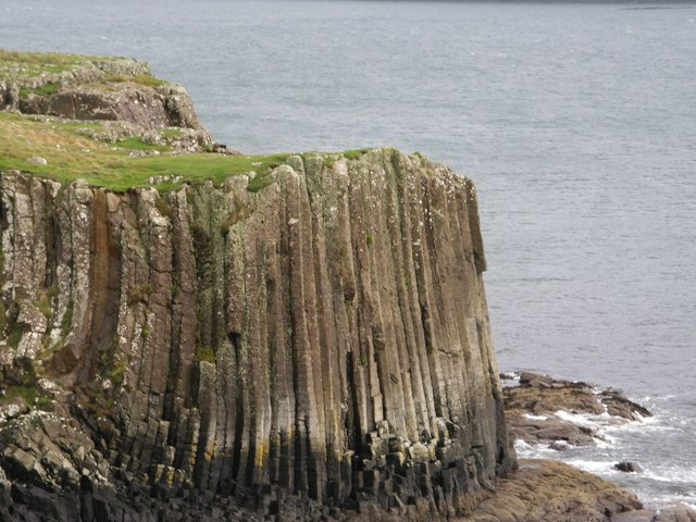 Basalt cliffs, Isle of Ulva, near Dùn Bhioramuill Similar feature to Staffa, seven miles to the south west. Isle of Ulva, Inner Hebrides.